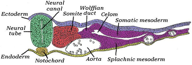 Colorized version of Image:Gray19.png, from Gray's Anatomy.